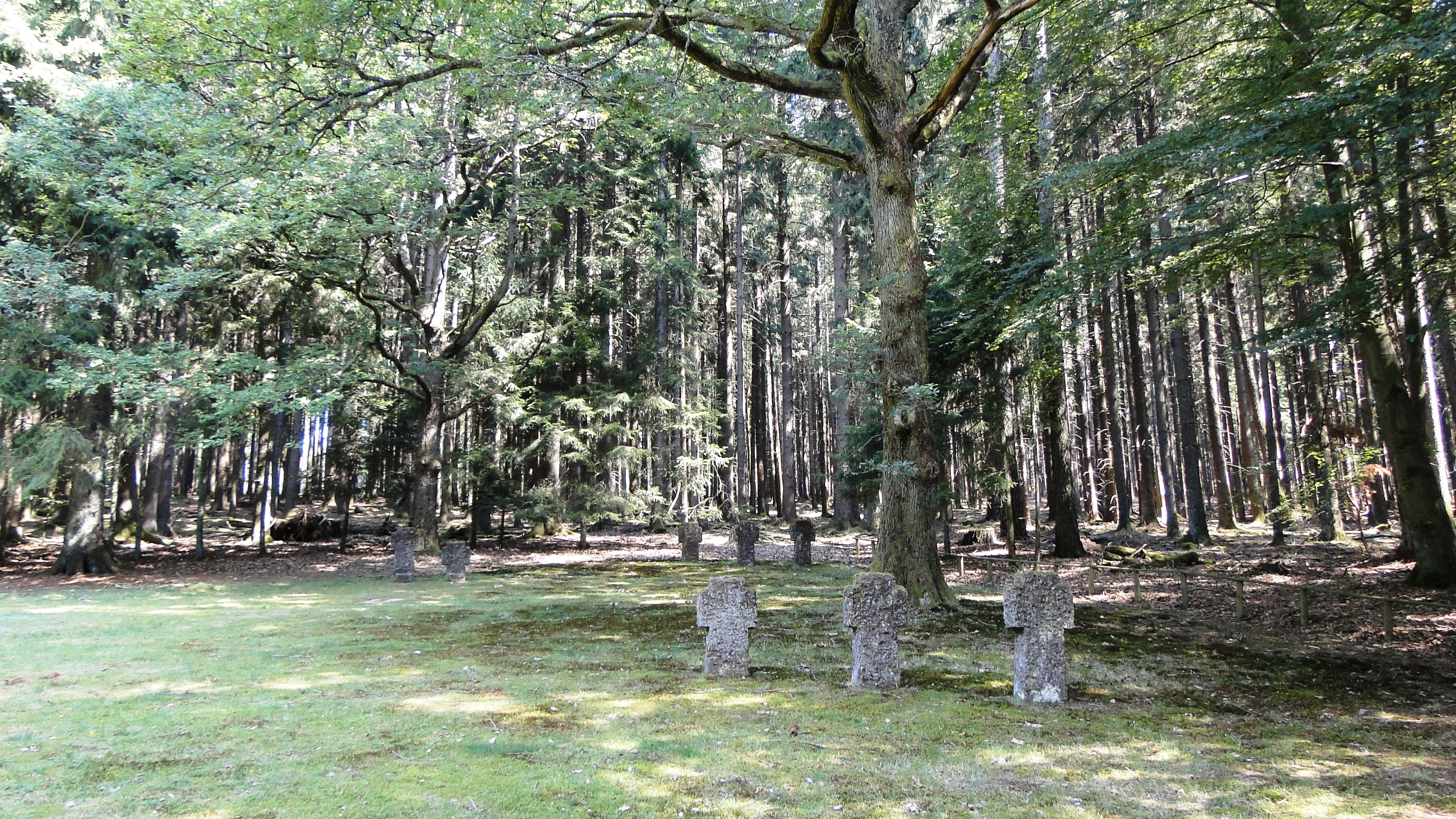 Stones marking mass graves of Soviet POWs who died at Stalag IX-B near Bad Orb, Hesse, Germany